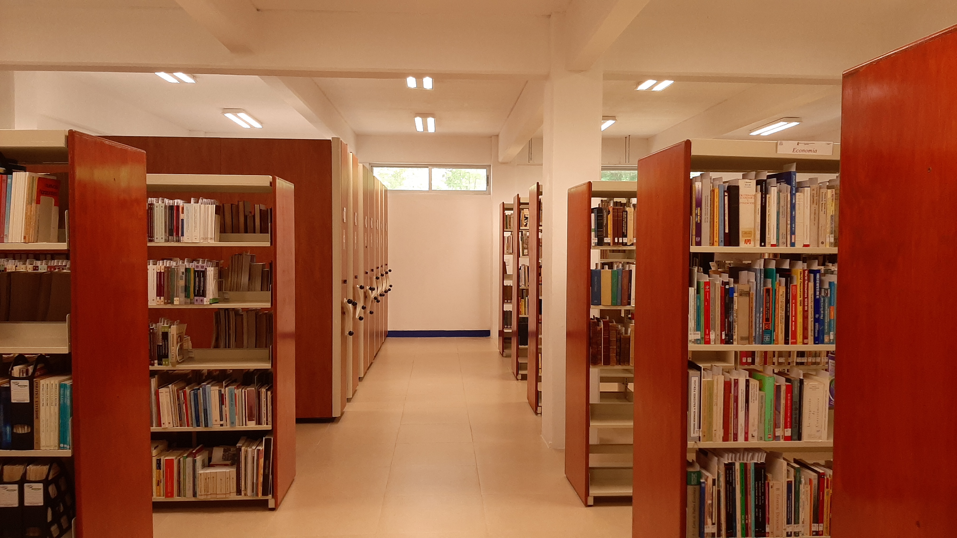 Library specialized in International Relations inside of the Institute of International Relations Isidro Fabela.